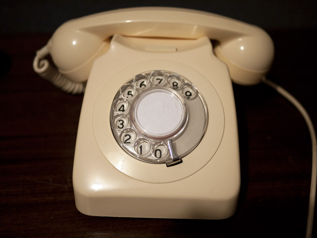 New Zealand rotary telephone. Note that the numbering goes 0,1,2,3... whereas most other countries number 0,9,8,7.... This is a standard Post Office model that was supplied in the times before the public were allowed to buy any phone they liked. It came in several colours. In 1987, Telecom was created and the public could soon start to buy their own phones. As of 13 November 2011, the pulse dialling phone network is still operational (as well as the newer tone dialling network) and this phone is still working.